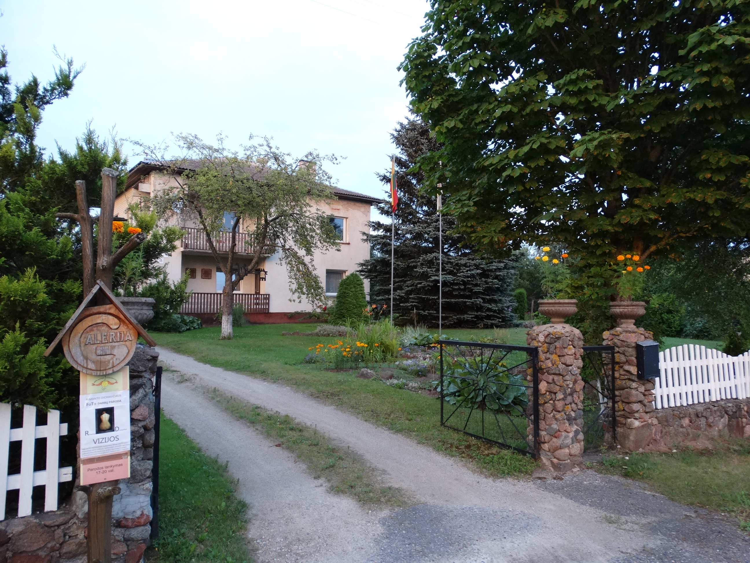 Vaikutėnai, Utena district, Lithuania